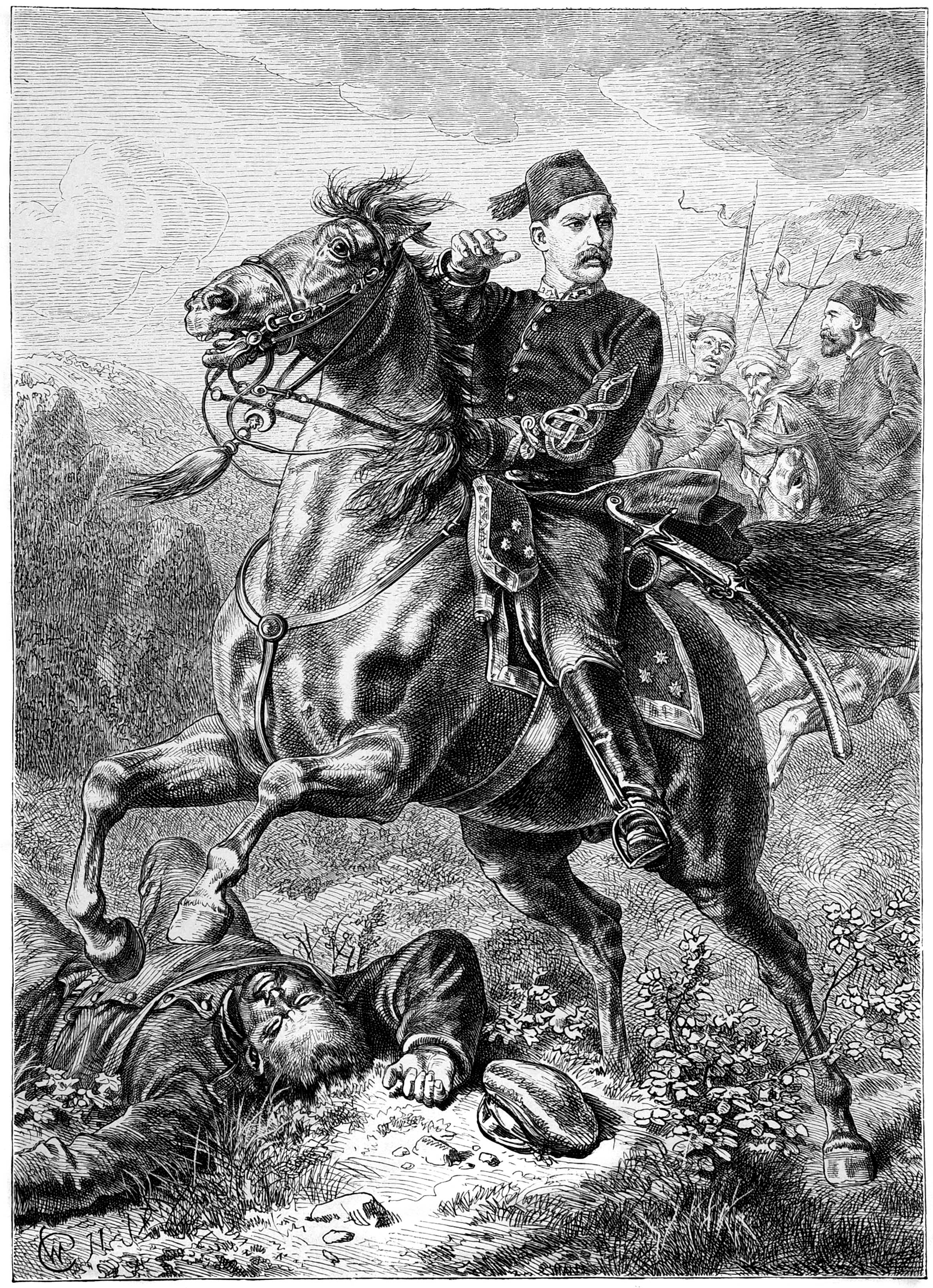 caption: "Suleiman Pascha.Originalzeichnung von Professor W. Camphausen in Düsseldorf."